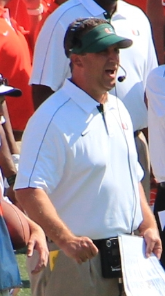 Miami Hurricanes football defensive coordinator Mark D'Onofrio